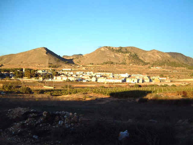 Sunrise over La Romana, Alicante, Spain.